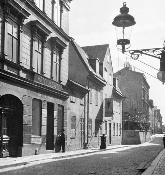 Hôtel de Suède, Klarabergsgatan, Stockholm